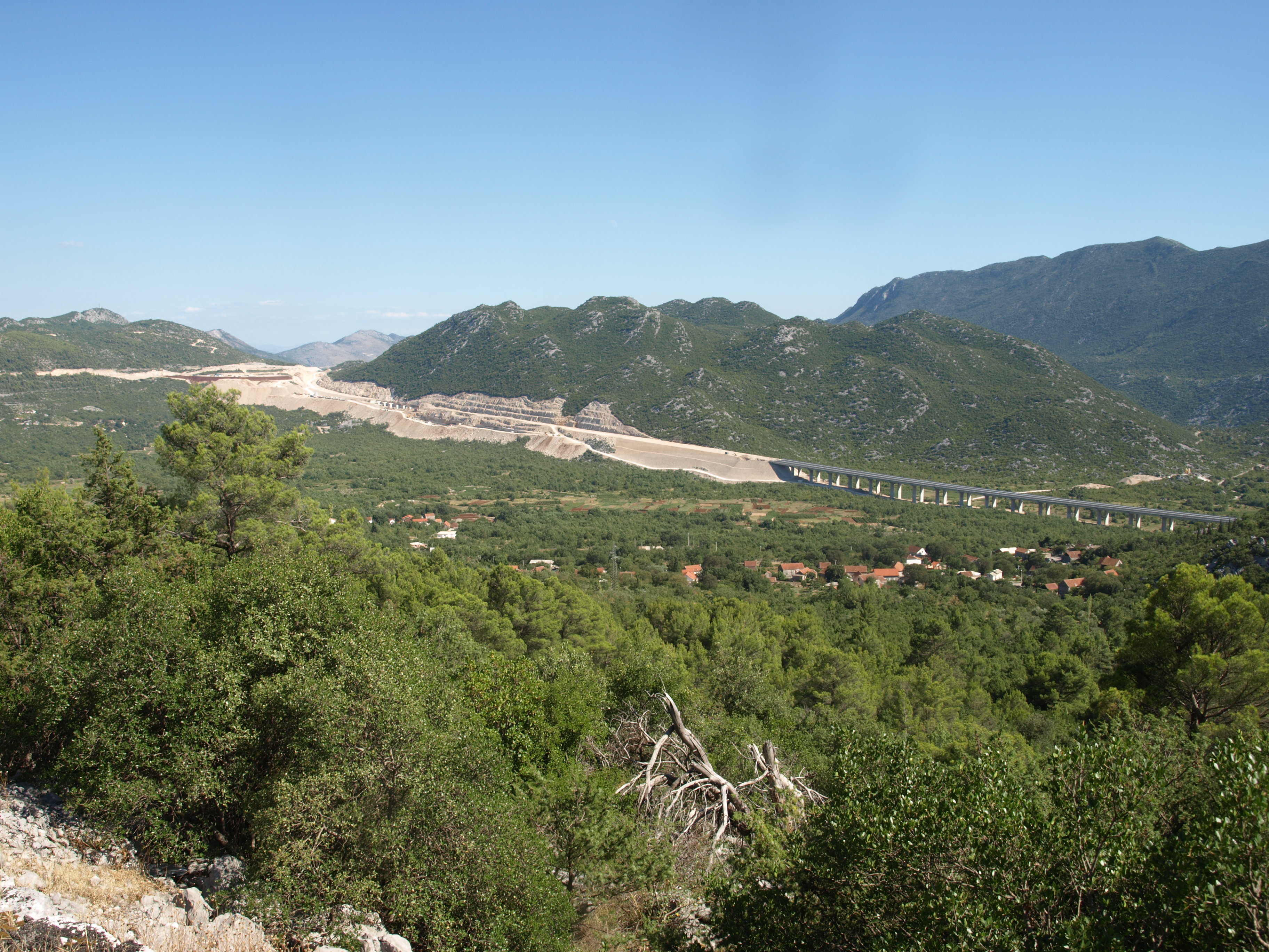 Highway construction site near Vrgorac in Croatia